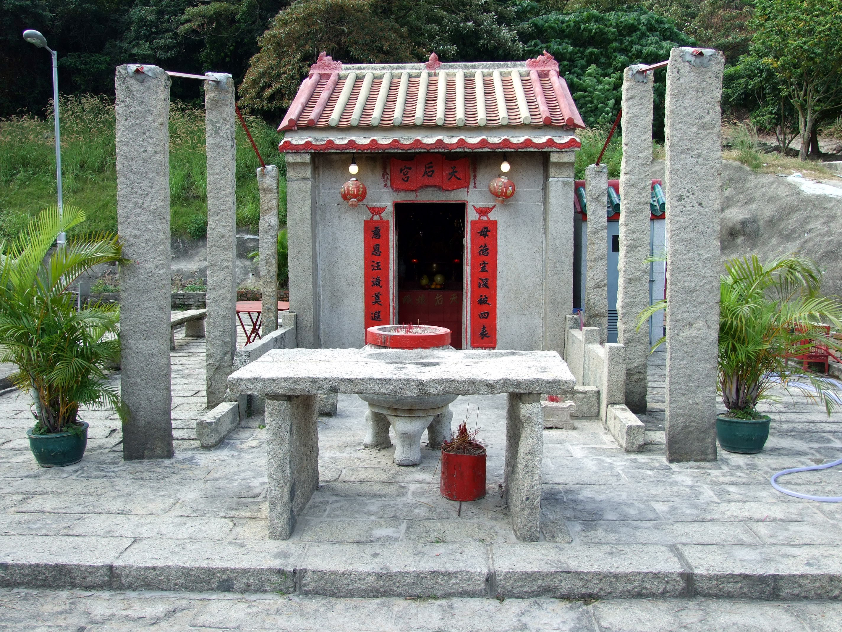 中文（香港）: 赤鱲角天后宮 Rebuilt Tin Hau Temple in the new Chek Lap Kok Village, in Tung Chung.